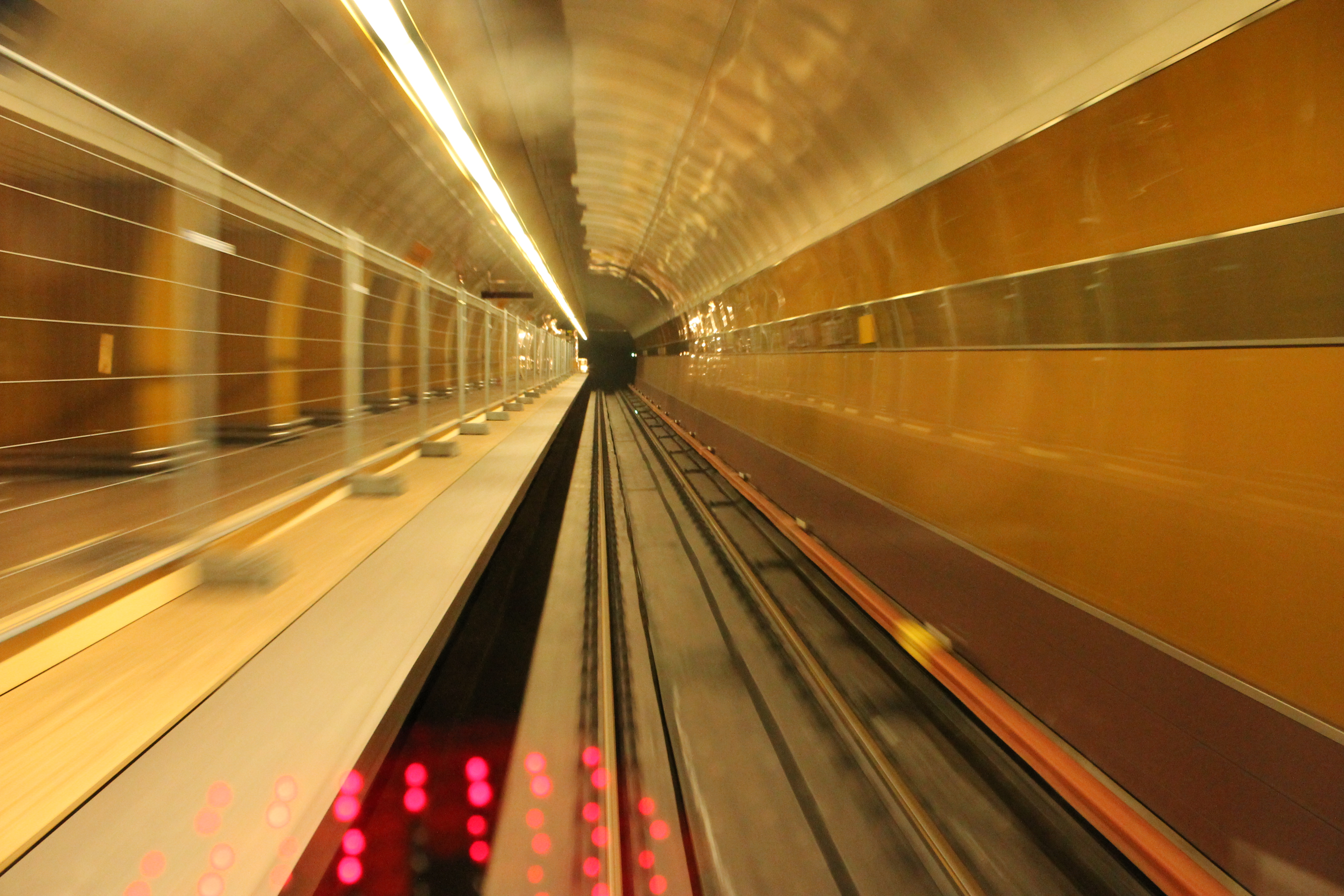 Metro station Národní třída from cabin of train